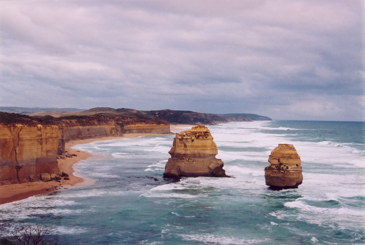 The Twelve Apostles, Victoria, Australia. (Geological stack)